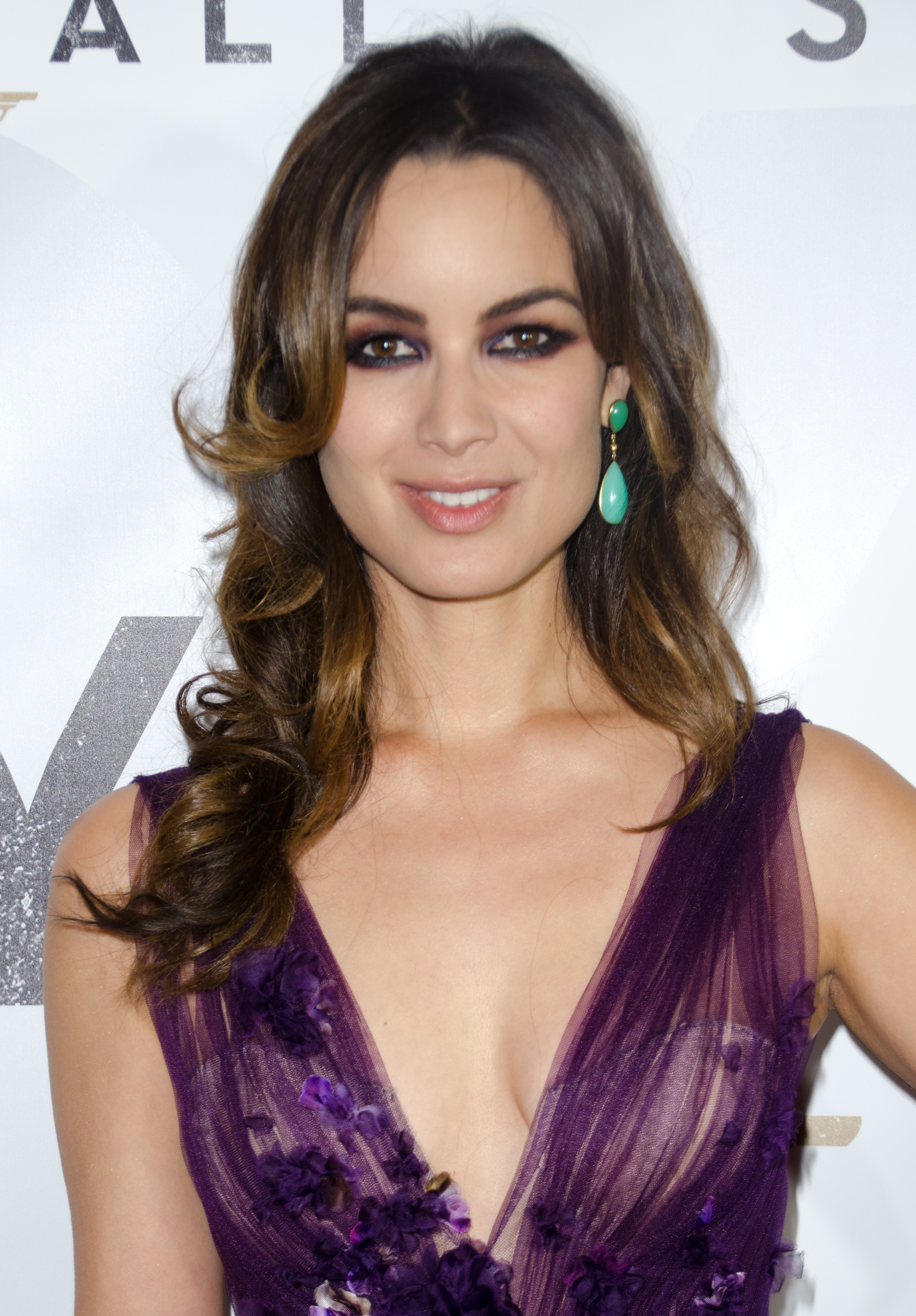 Bérénice Marlohe at the The Australian Premiere of James Bond - Skyfall at the State Theatre in Sydney, 2012.